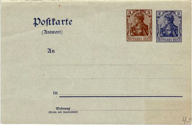 The blank side of open letter of German empire with preprint of 3 and 2 pfennigs Germania stamps, 1902